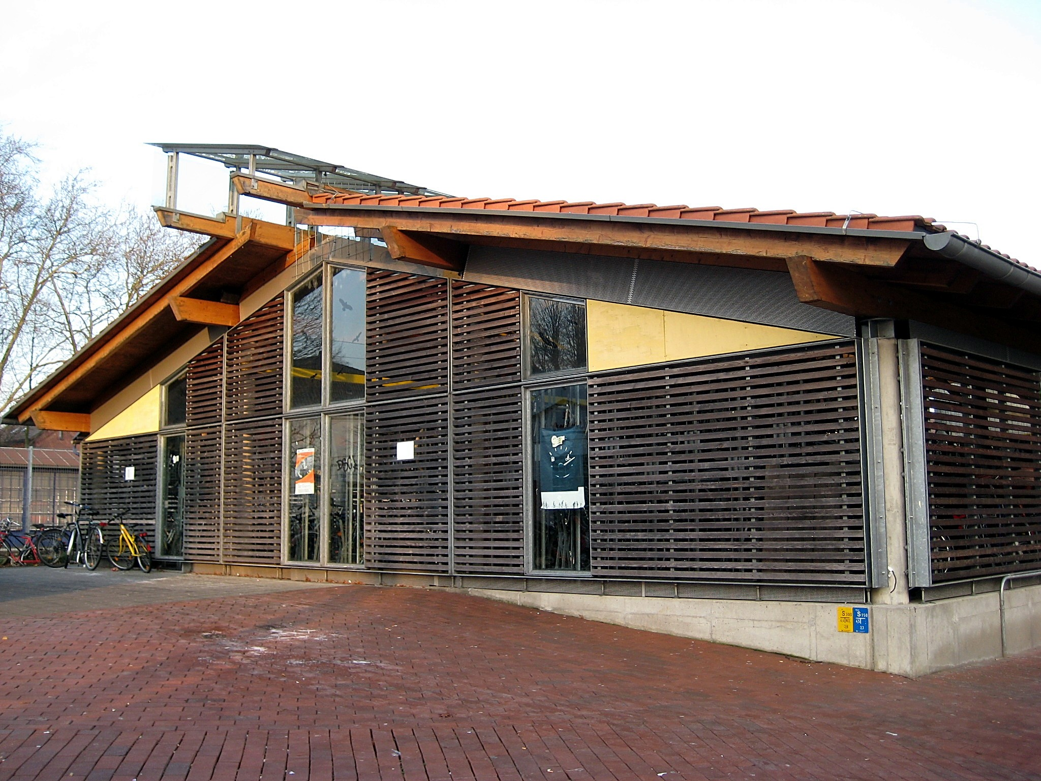 Bike parking in Bünde, District of Herford, North Rhine-Westphalia, Germany.